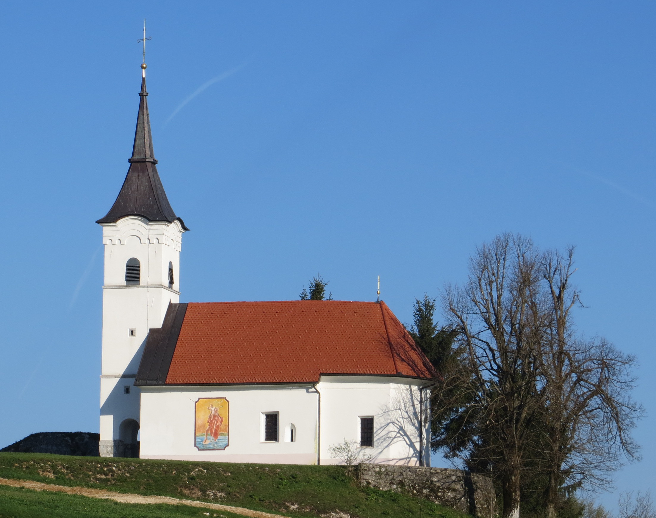 Saint John the Evangelist Church in Kalce, Municipality of Logatec, Slovenia